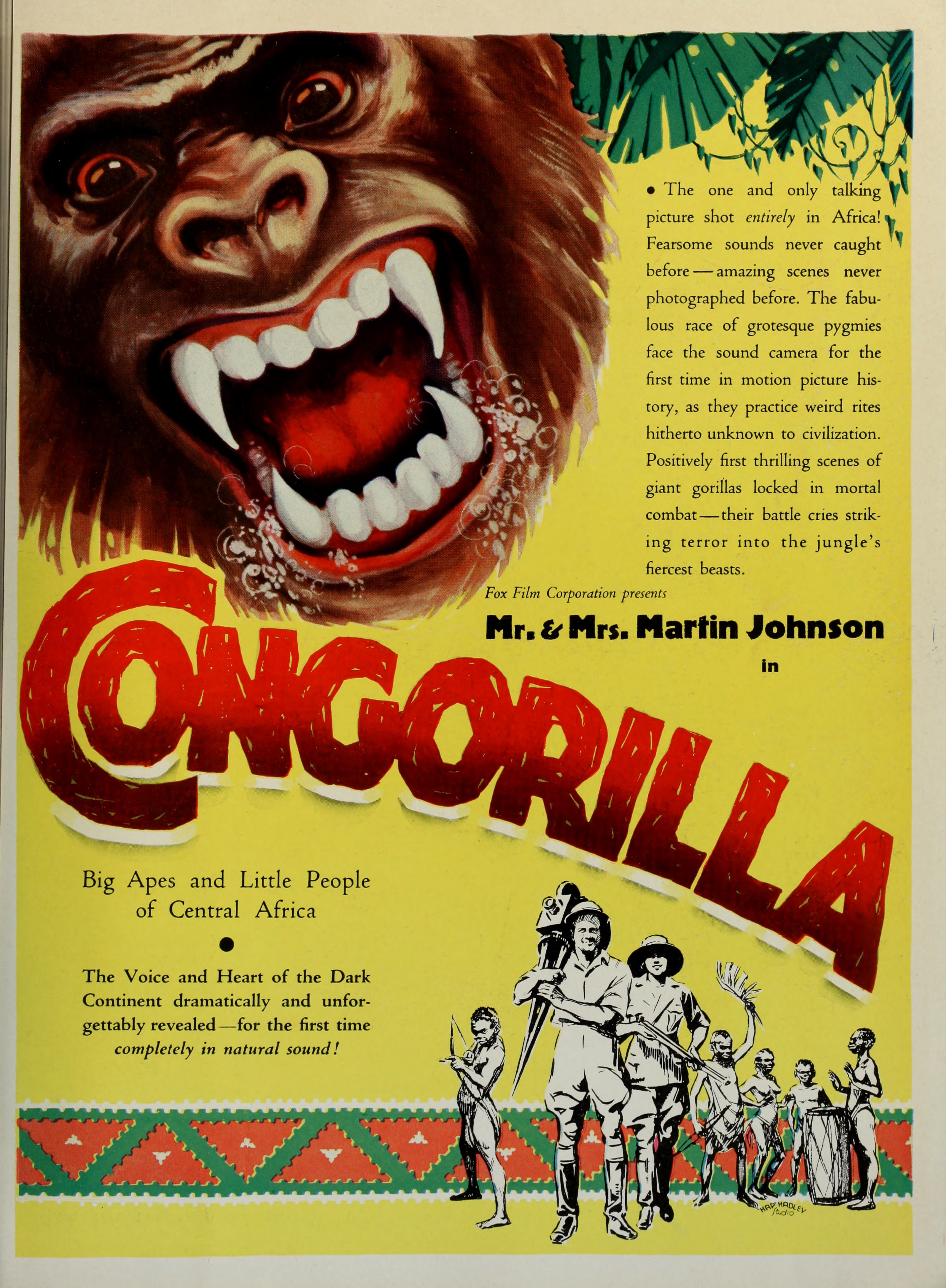 promotional material for the film Congorilla, featuring Martin and Osa Johnson, released in 1932.